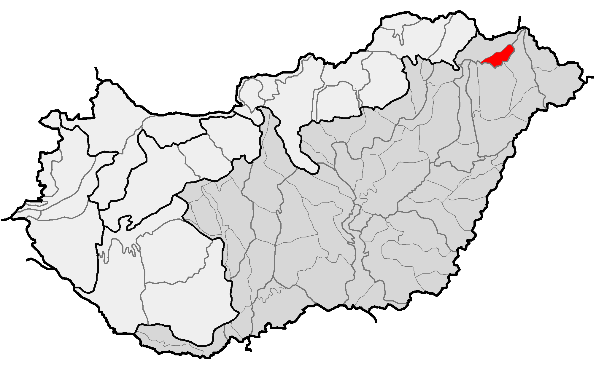 Location of geographical microregion of Rétköz (red) and macroregion of Alföld (gray) within subdivisions of Hungary.